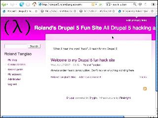 See the "Theming a View with CSS in a Box" video How to theme a view for Frequently Asked Questions with CSS in a box. Available on any Bryght Light Site, any Bryght VPS site with Drupal 5 and any site using the Bryght Basic Drupal 5 install profile. This screencast builds on two earlier screencasts:Creating a custom content type using CCK for Frequently Asked Questions and Creating a View for Frequently Asked Questions custom content type